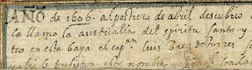 Cartouche of La Gran Baya de S. Philippe y S. Santiago Prado y Tovar ca.1606 Prado y Tovar ca.1606 ( España. Ministerio de Cultura. Archivo General de Simancas)